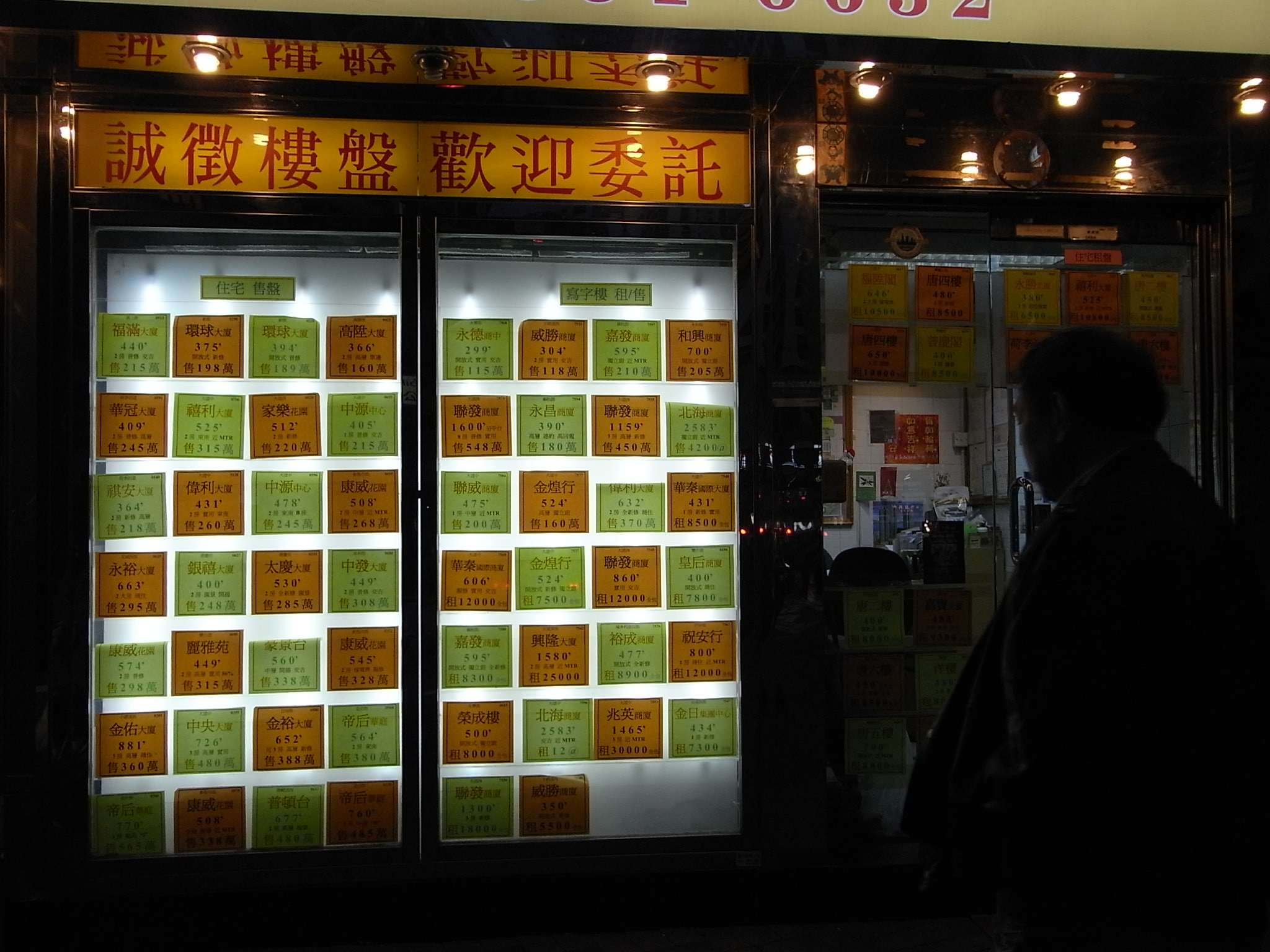 上環黃昏